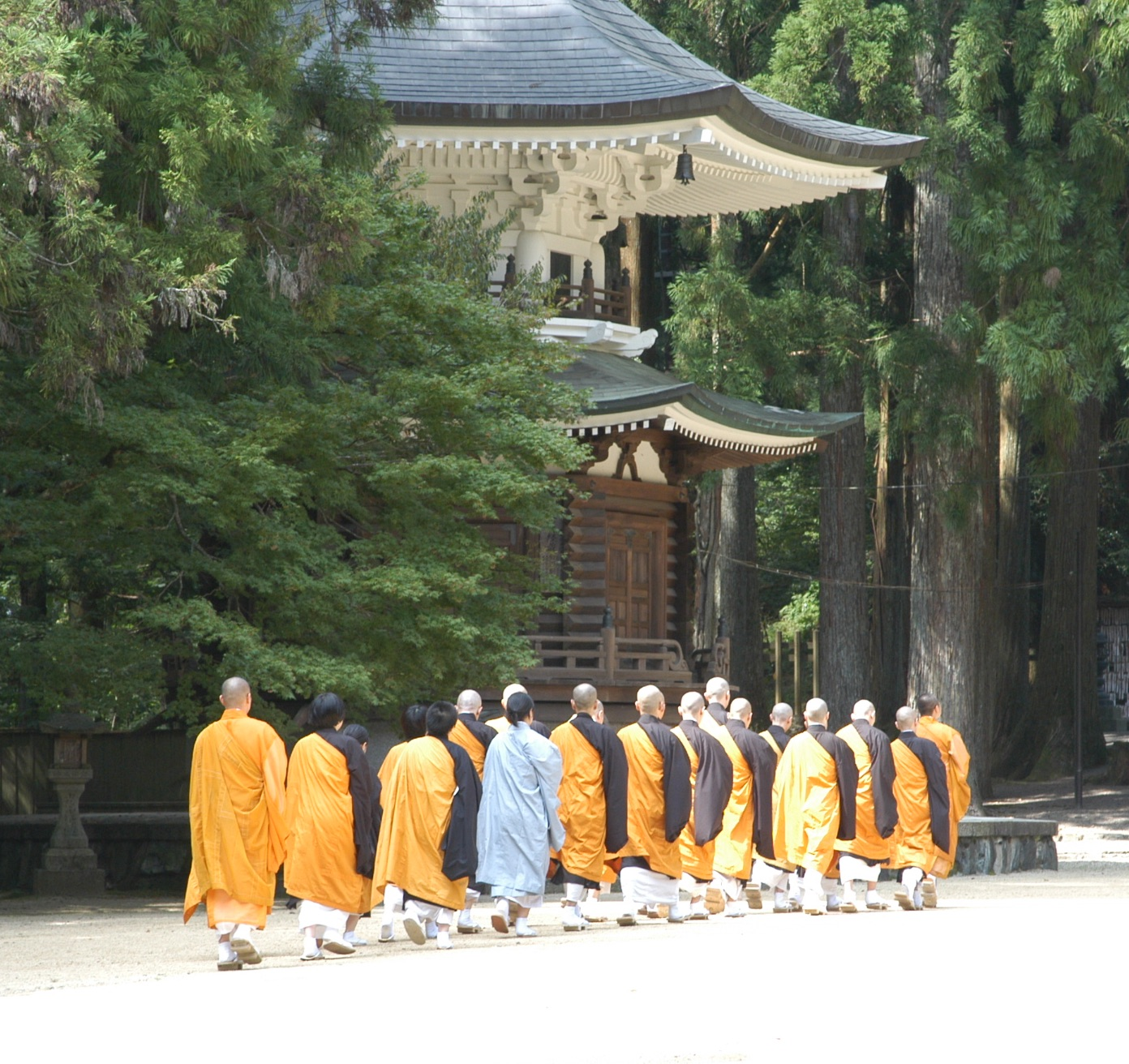 Exercising Munks in the Dankō-Garan district of the Kongōbu-Temple (Kōyasan), Japan